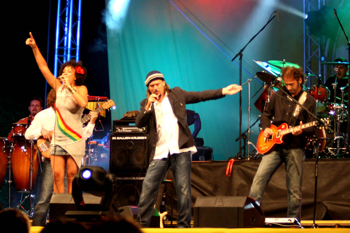 Gibonni performing live with Maja Azucena (vocalist) and Marijan Brkić Brk (guitarist) at Špancirfest, September 2nd 2007 in Varaždin, Croatia.